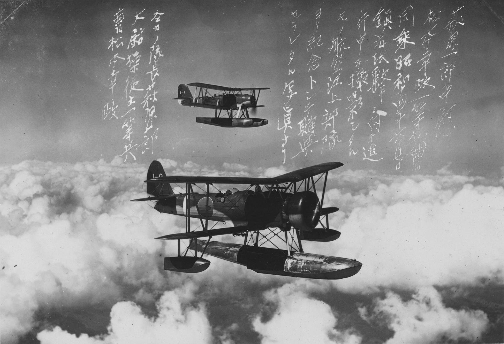 Imperial Japanese Navy Air Service's seaplane Nakajima E8N in the foreground with a Kawanishi E7K seaplane in the background